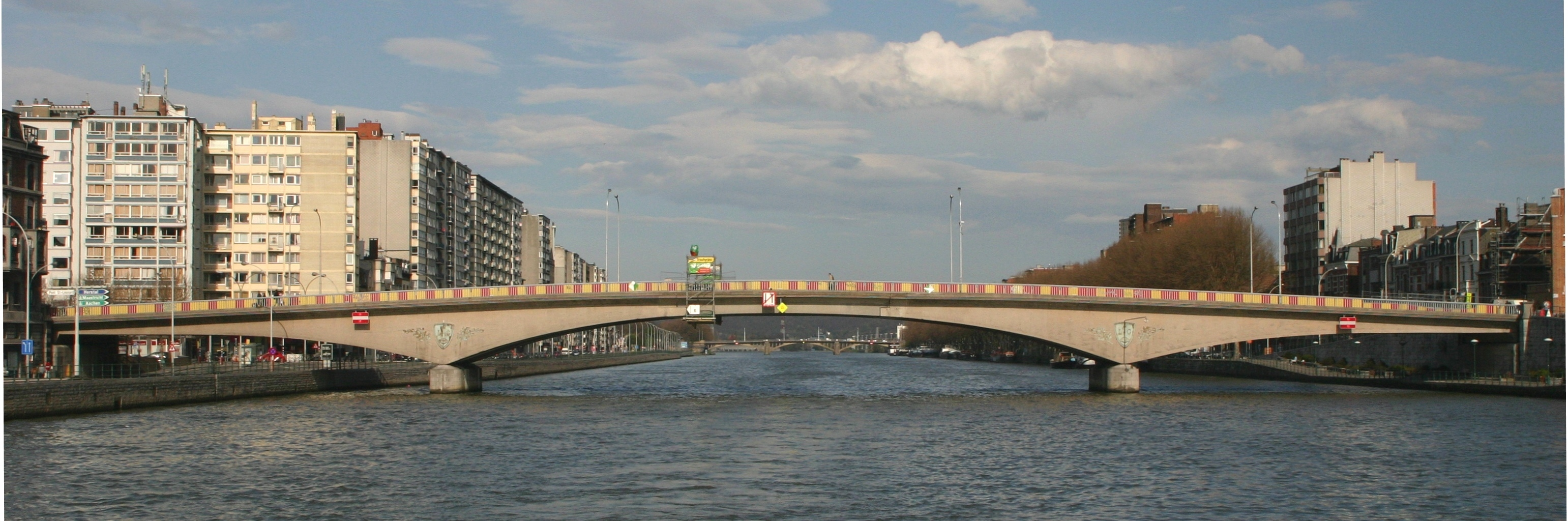 Pont Maghin in Liège